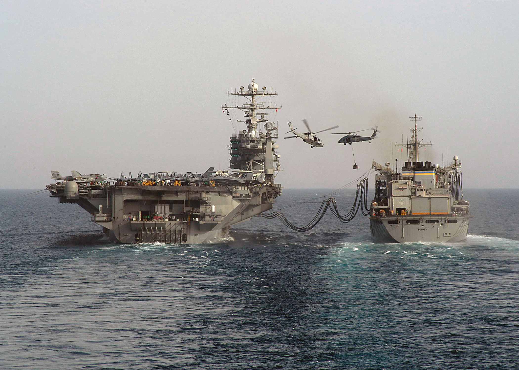 Arabian Gulf (Apr. 22, 2004) - The Military Sealift Command (MSC) fast combat support ship USNS Supply (T-AOE 6) and USS George Washington (CVN 73) perform a connected replenishment at sea (RAS) and a vertical replenishment (VERTREP) at sea. The Norfolk, Va.-based aircraft carrier and the Earle, N.J.-based fast combat support ship are on a regularly scheduled deployment in support of Operation Iraqi Freedom (OIF). U.S. Navy photo by Photographer's Mate Airman Robert Brooks. (RELEASED)